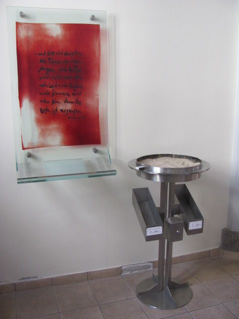 St. Catherine, Kiev